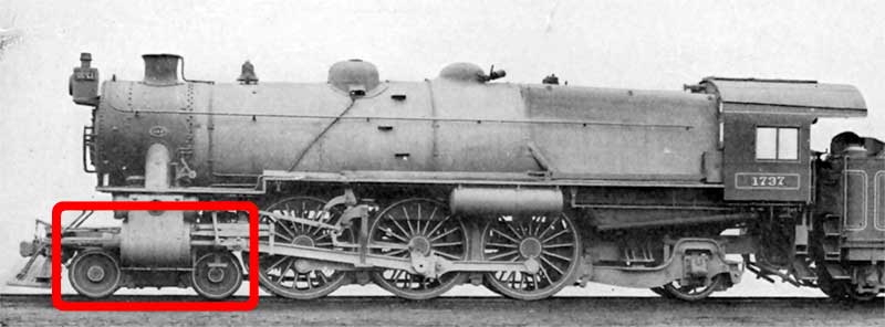 Flipped image :Image:462leading.jpg originally uploaded by User:Hellbus "Highlighted leading wheels. Based on an image from the 1922 Locomotive Cyclopedia of American Practice which is now in the public domain."